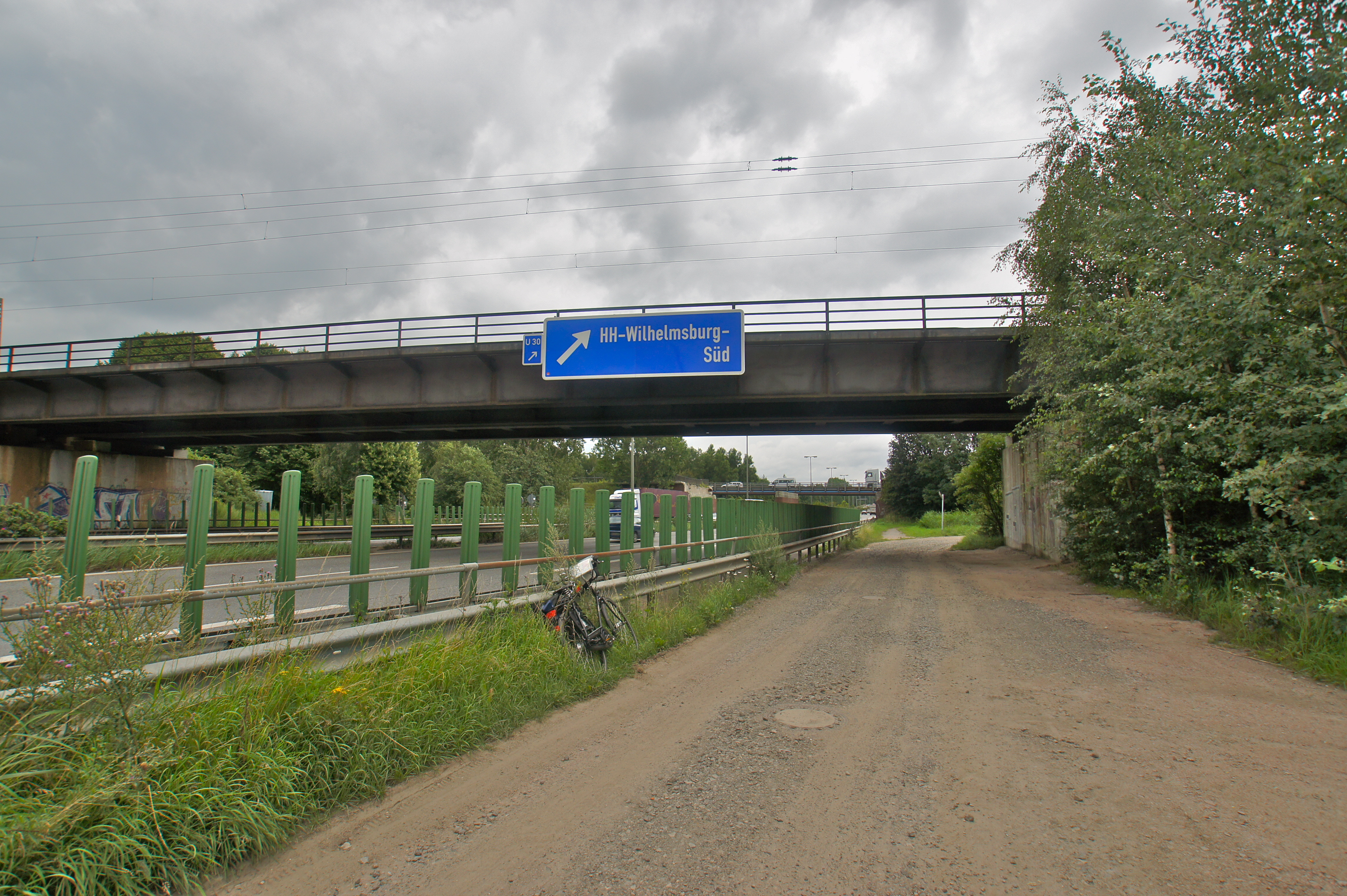 Hamburg (Wilhelmsburg), Germany: The B75 B4